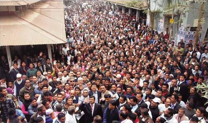 Photo taken on 8th January, 2012 after getting bail from Sylhet Judicial Magistrate Court.